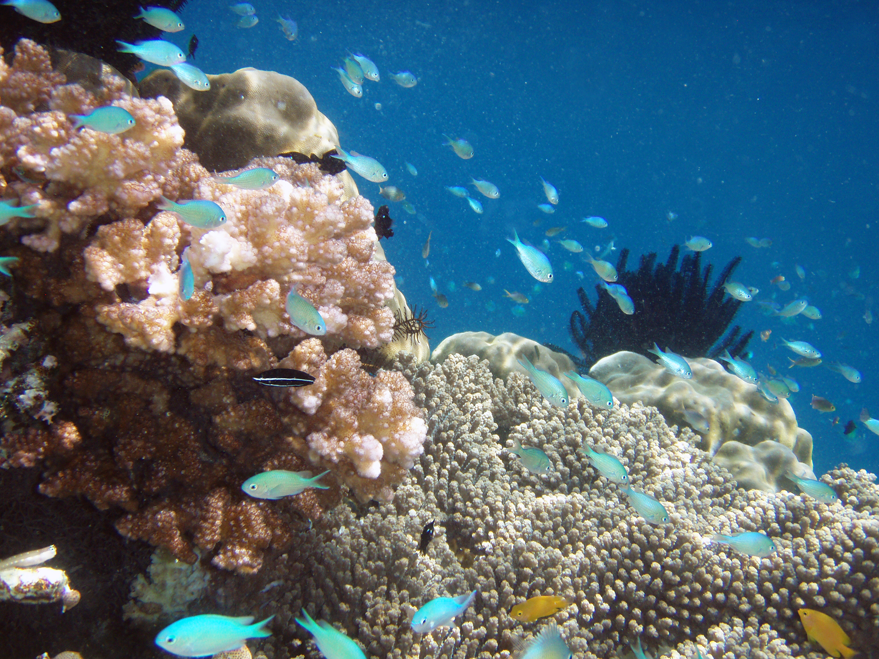 Tropical aquarium of the Raja Ampat Islands